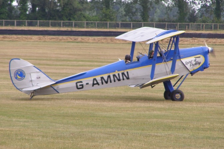 1944-Built DH Tiger Moth registered G-AMNN at Goodwood Aerodrome, West Sussex, England